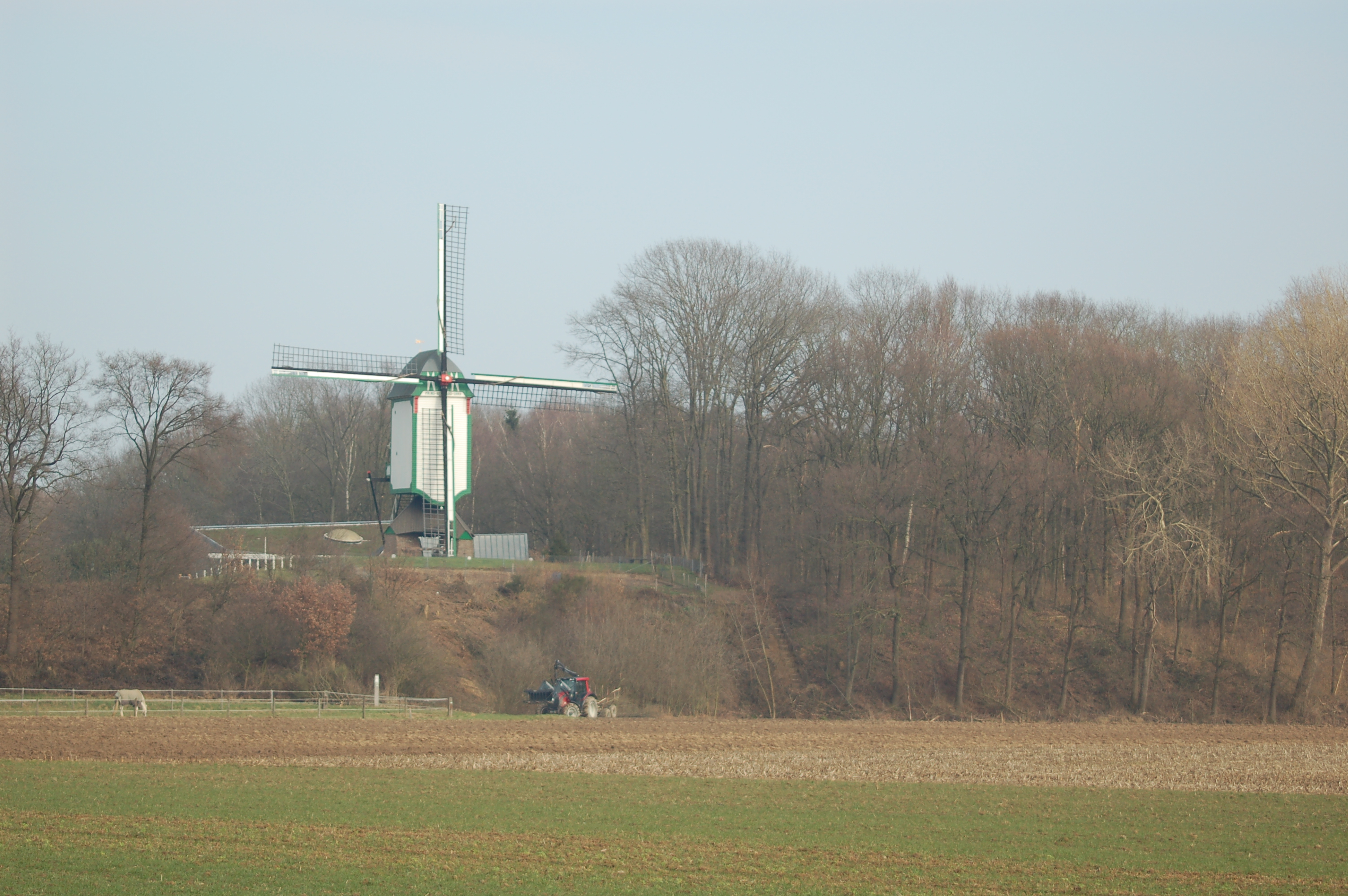 Prins-Bernhard-Molen, Melick, Nederlands